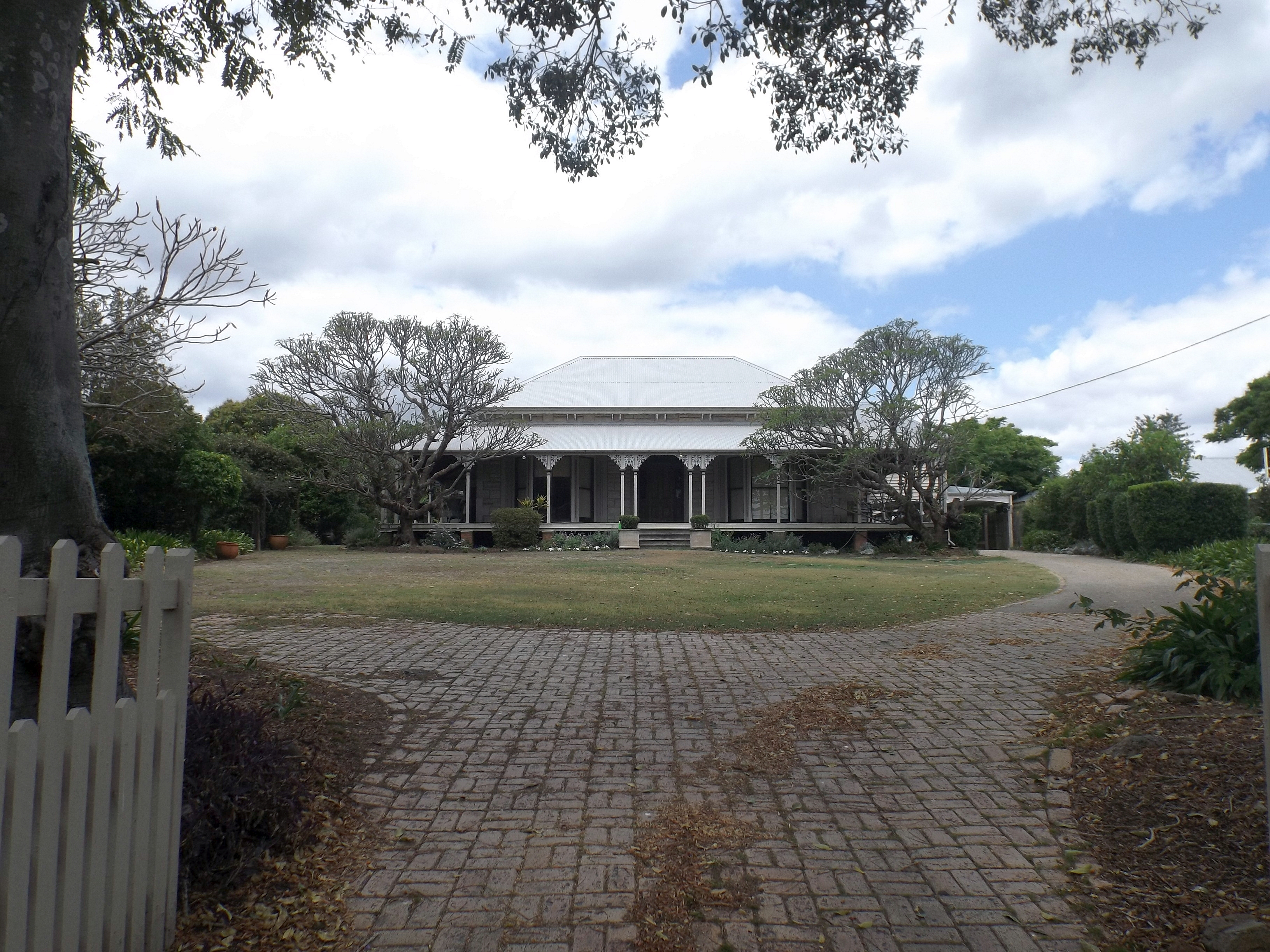 Photo of Kyeewa and garden at East Ipswich, Ipswich, Queensland, Australia.